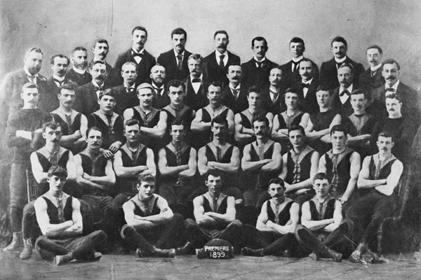 Group photo of Fitzroy FC, premiers